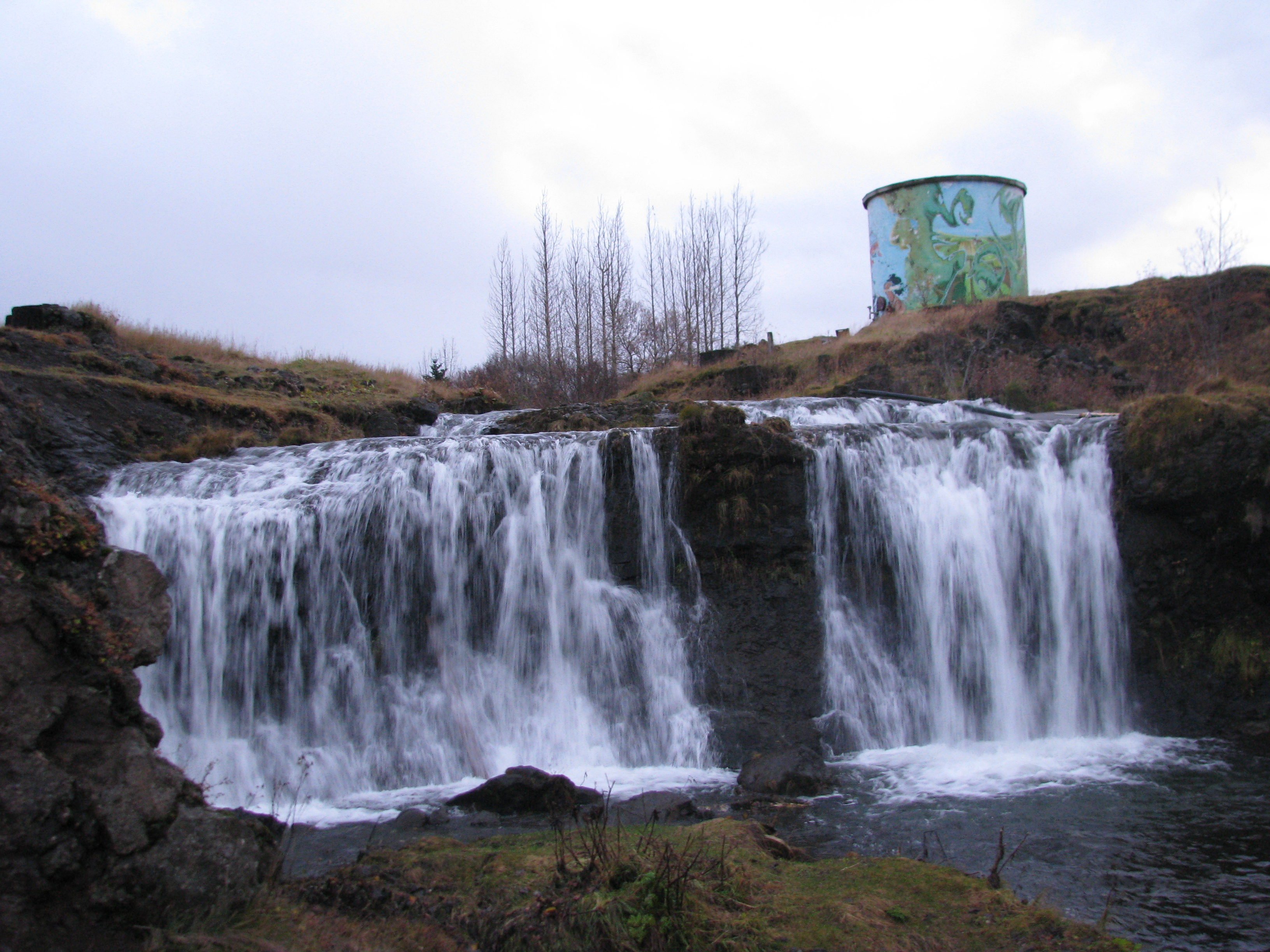 The Álafoss, a little waterfall near Reykjavík.